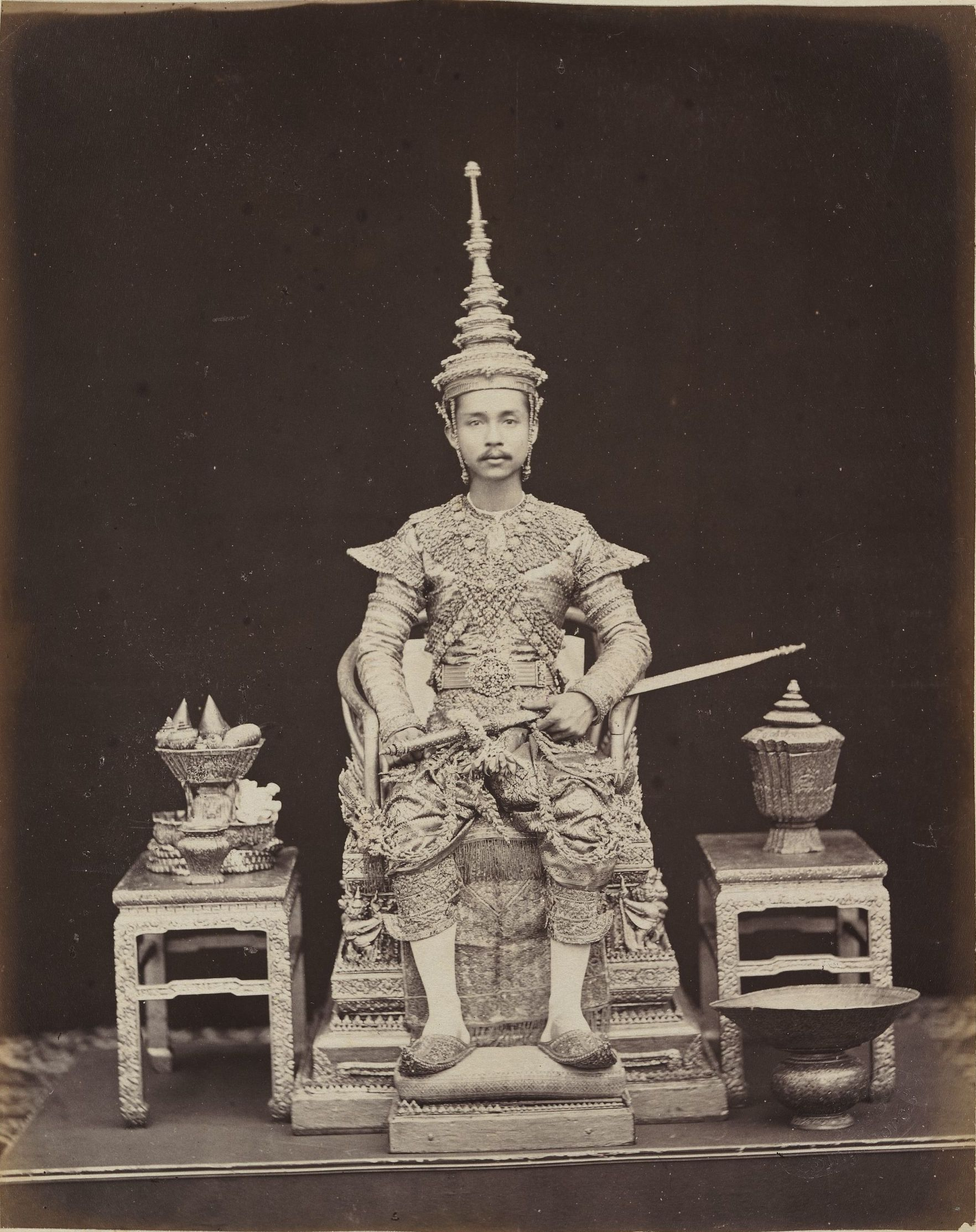 Chulalongkorn on his throne crowned (second coronation, after attaining his majority)